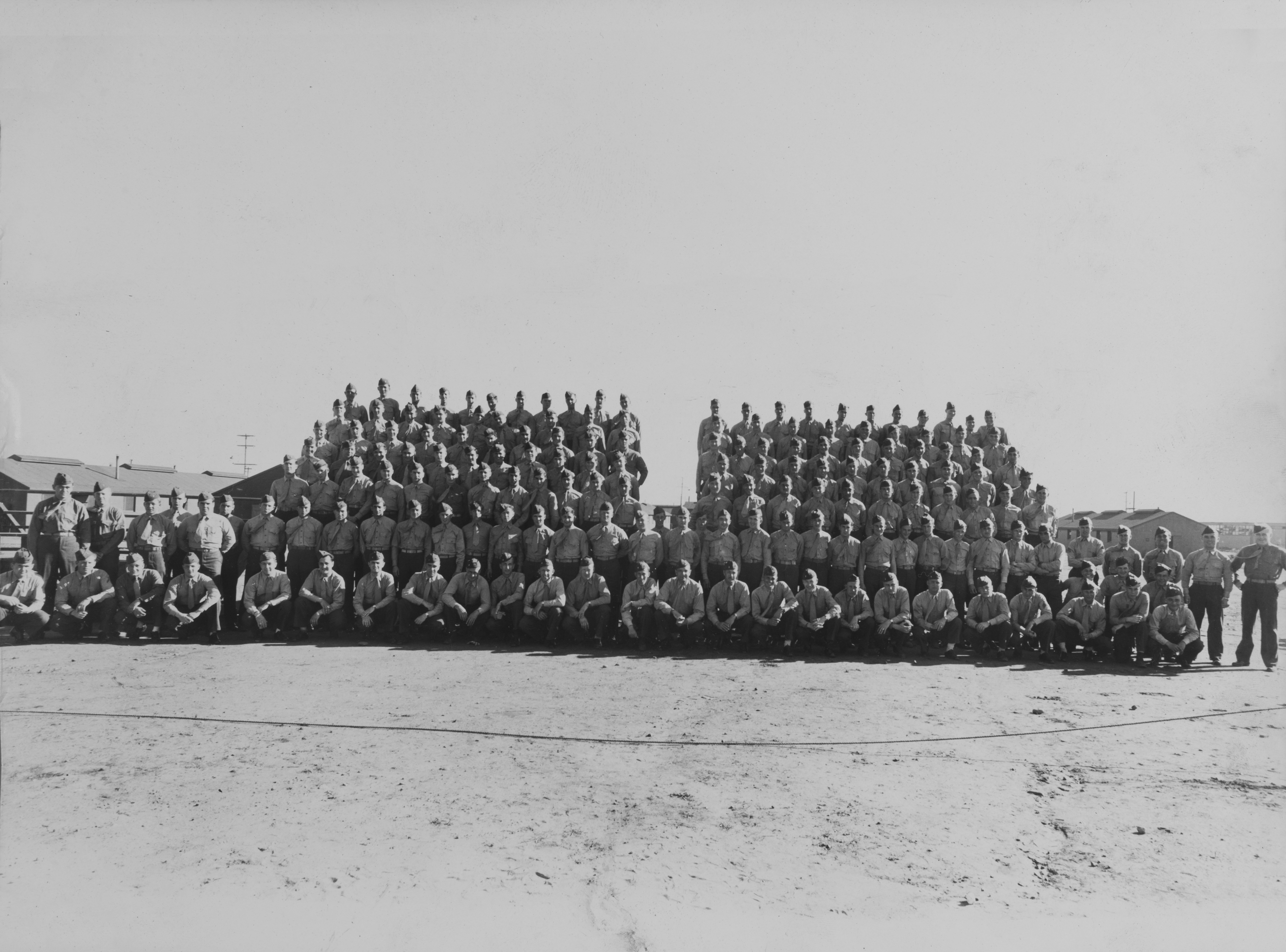 Air Warning Squadron (Air Transportable) 5 squadron photo taken at Marine Corps Air Depot Miramar in March 1944.